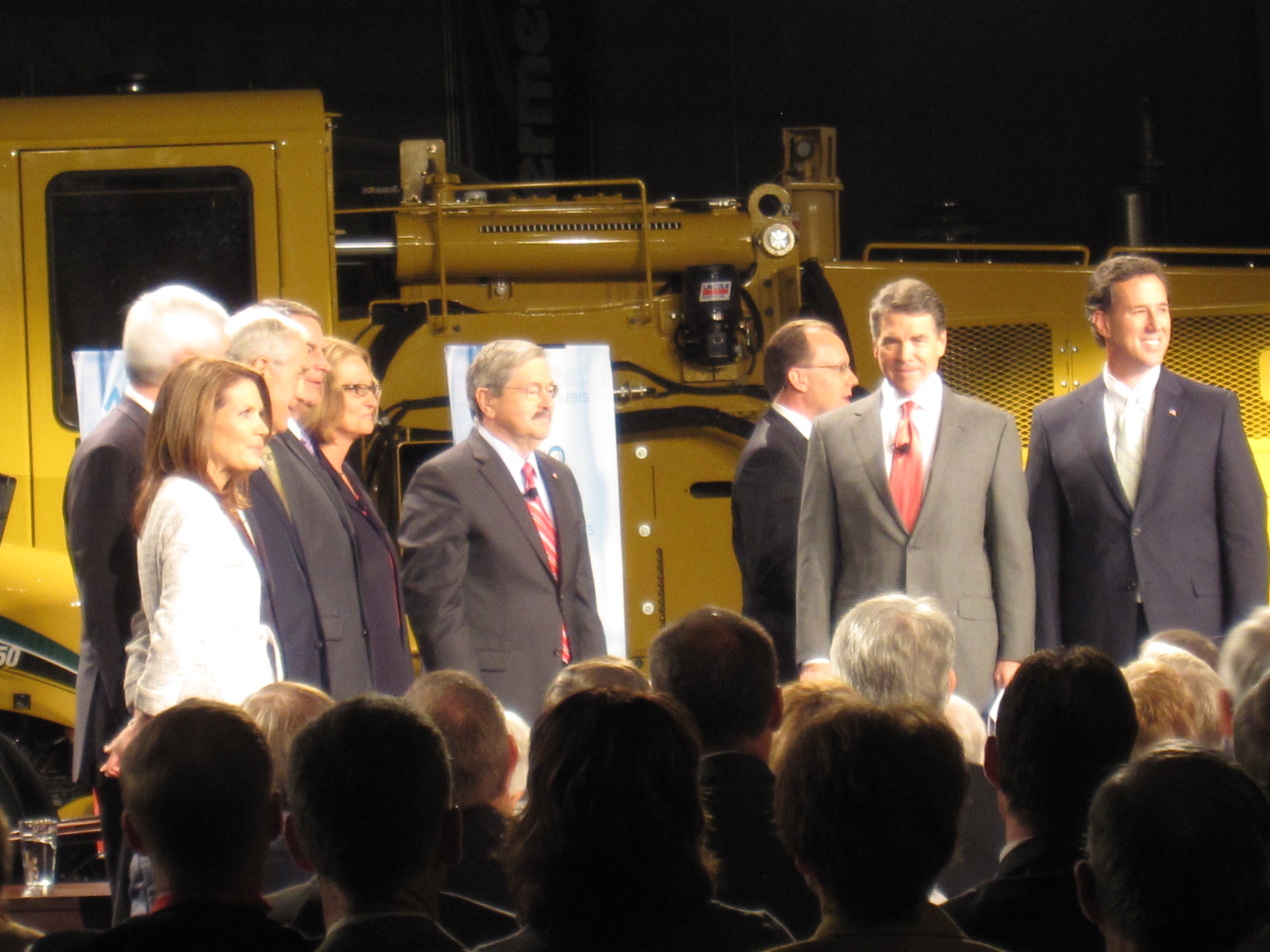 Manufacturing Forum in Pella 001